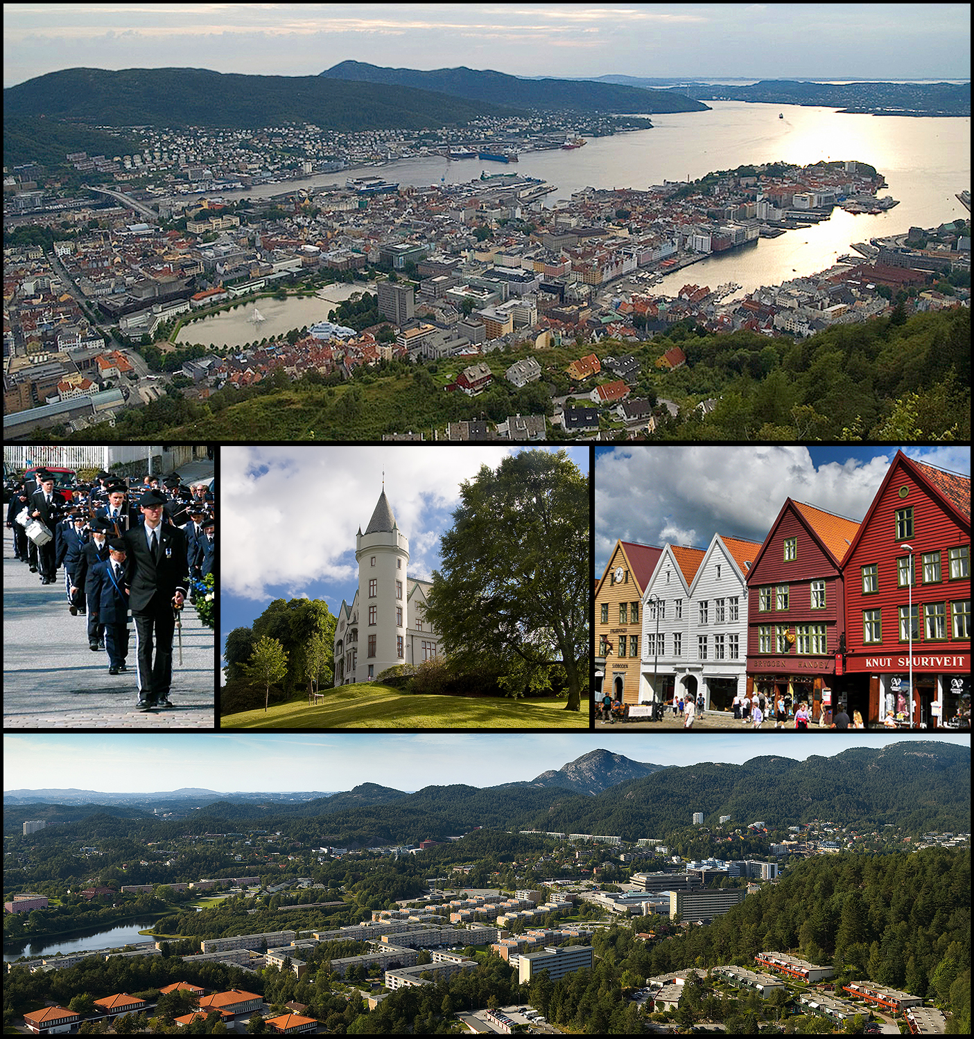 Composite of various pictures from the city of Bergen, Norway. Inspired by DenverImages.jpg at the English Wikipedia. Top: View of the city centre from Fløyen. Middle (left to right): a buekorps, Gamlehaugen in Fana borough, and the World Heritage Site of Bryggen. Bottom: Panorama of the valley of Fyllingsdalen south of the city centre.